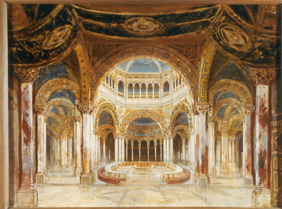 Scenic design of the "Gralstempel" in Richard Wagners "Parsifal.